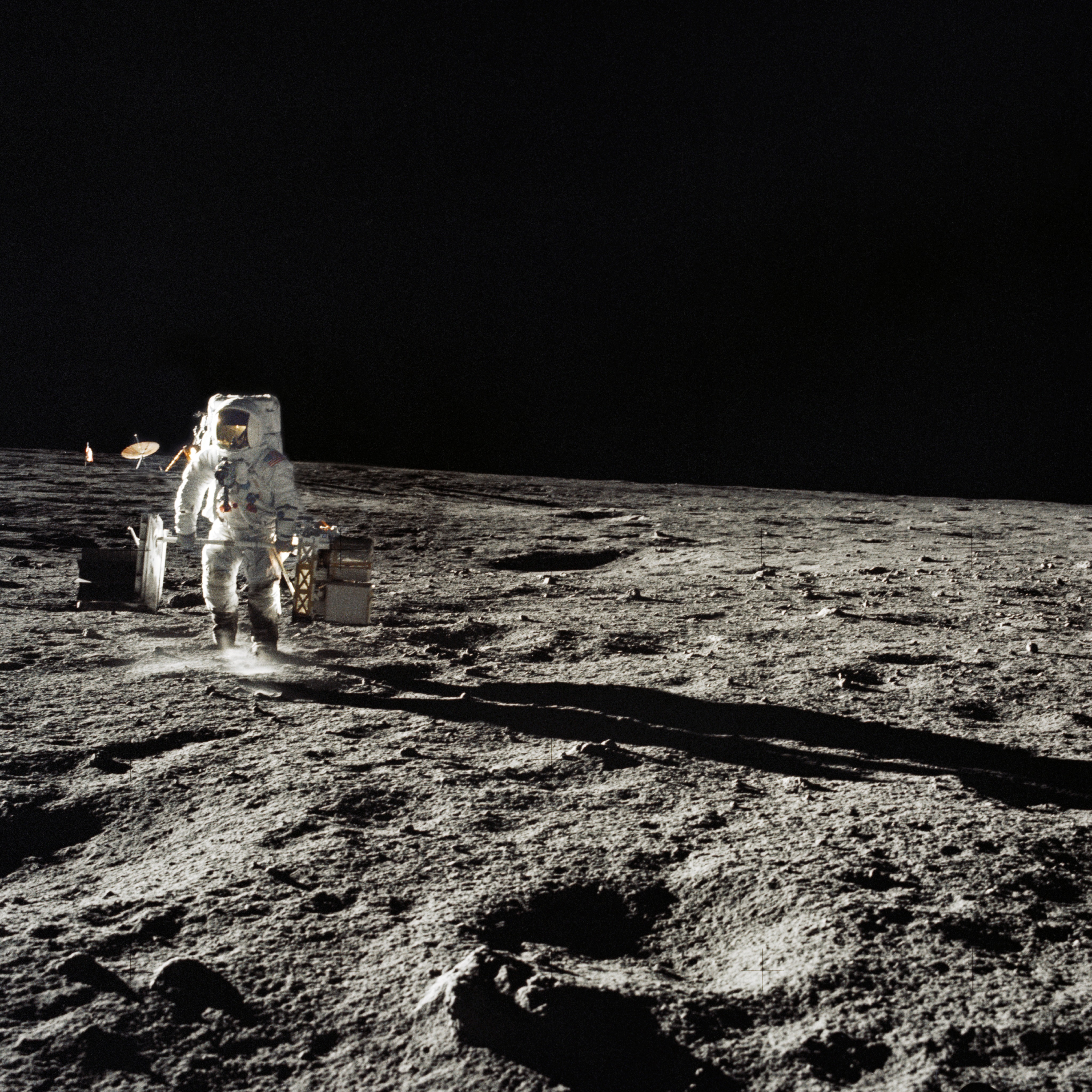 AS12-46-6807 (19 Nov. 1969) --- Astronaut Alan L. Bean, lunar module pilot, traverses with the two sub packages of the Apollo Lunar Surface Experiments Package (ALSEP) during the first Apollo 12 extravehicular activity (EVA). Bean deployed the ALSEP components 300 feet from the Lunar Module (LM). The LM and deployed erectable S-band antenna can be seen in the background.